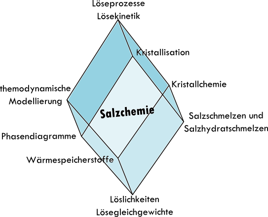 Topics of salt chemistry